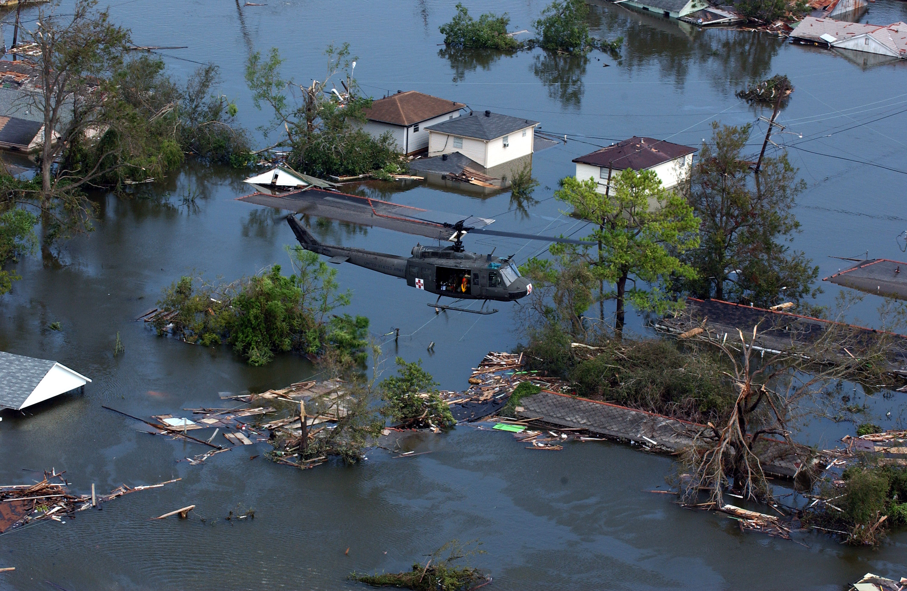 New Orleans, La. August 30, 2005 -- Air to air photograph of an Army rescue helicopter searching for victims in New Orleans. New Orleans is being evacuated as a result of floods from the catestrophic failure of the Federal levee system during Hurricane Katrina. Photo by Jocelyn Augustino/FEMA